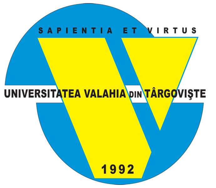 Official Logo - Valahia University of Targoviste, Bd. Regele CAROL I, nr. 2, 130024, Targoviste, Dambovita, Romania